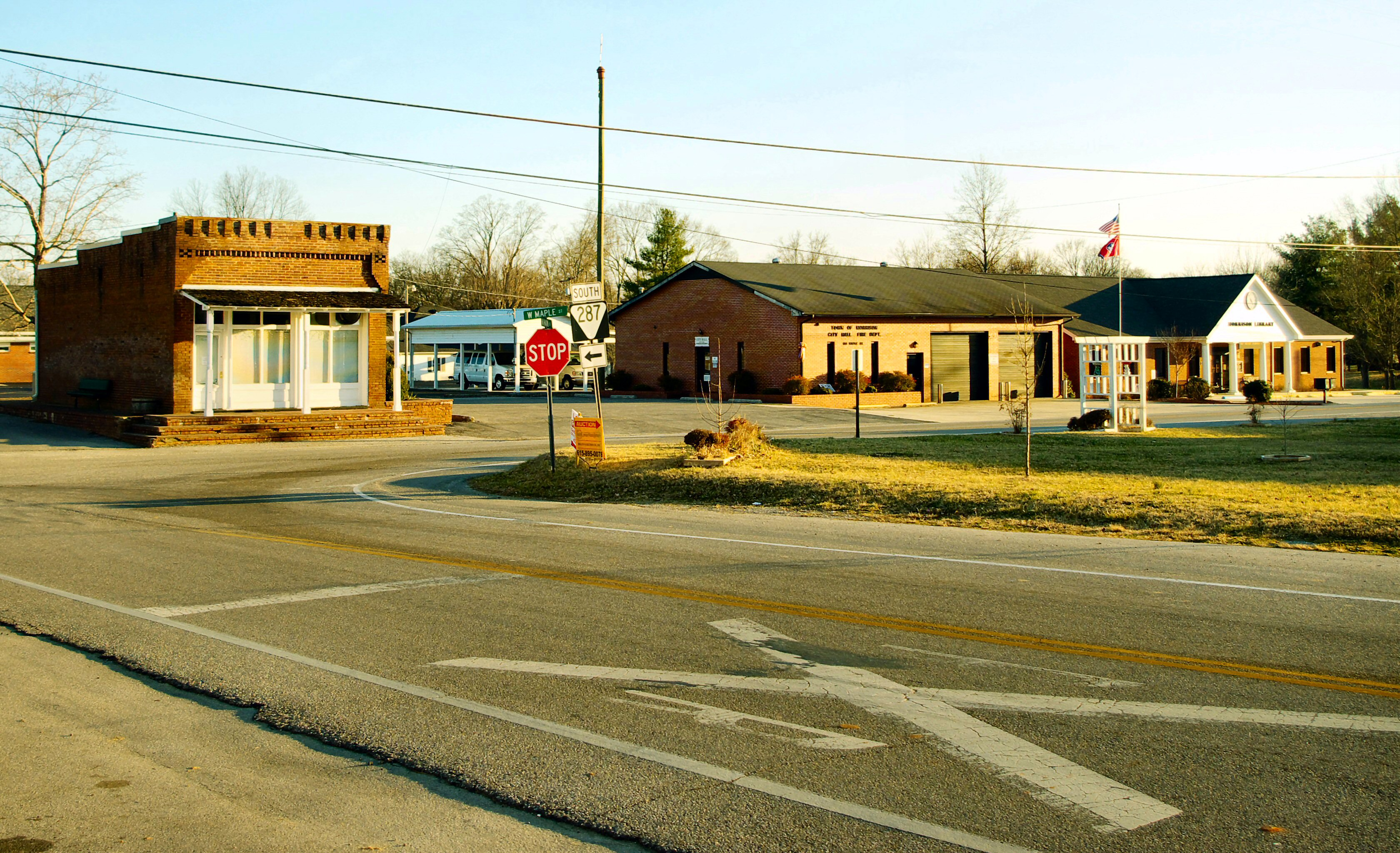 Intersection of Tennessee Highway 287 and Tennessee Highway 379 in Morrison, Tennessee, United States, with Morrison's city hall, fire department, and library on the right.